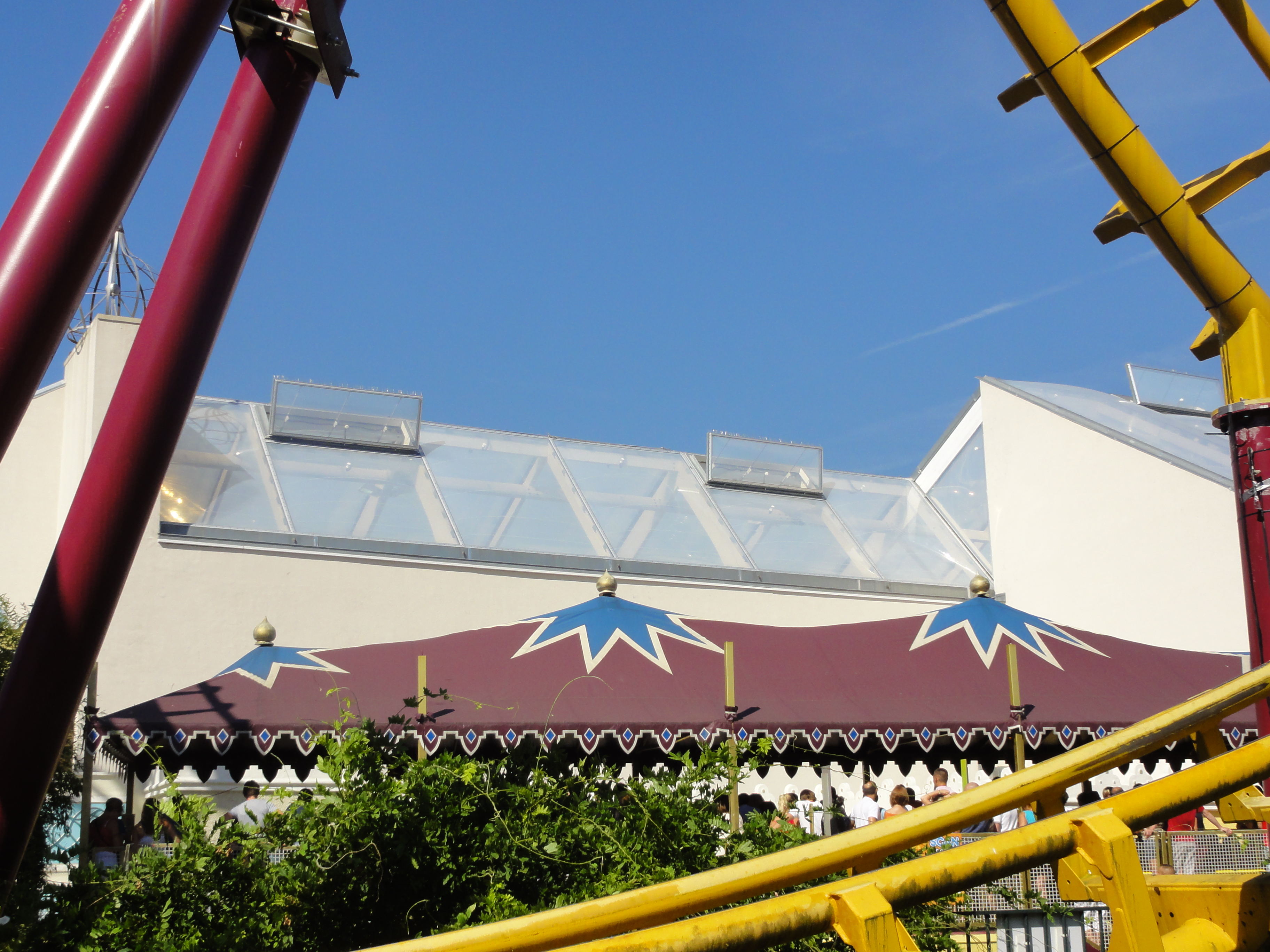 Aqualibi, Walibi Belgium, Belgium.